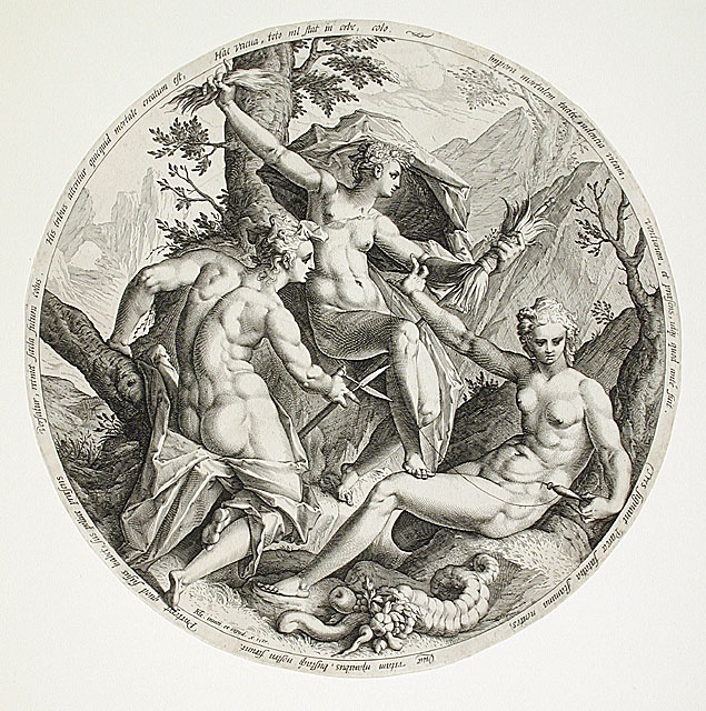 The Three Fates, attributed to Jacob Matham. Print, Engraving, 33.81 cm in diameter. Collection of the Los Angeles County Museum of Art.